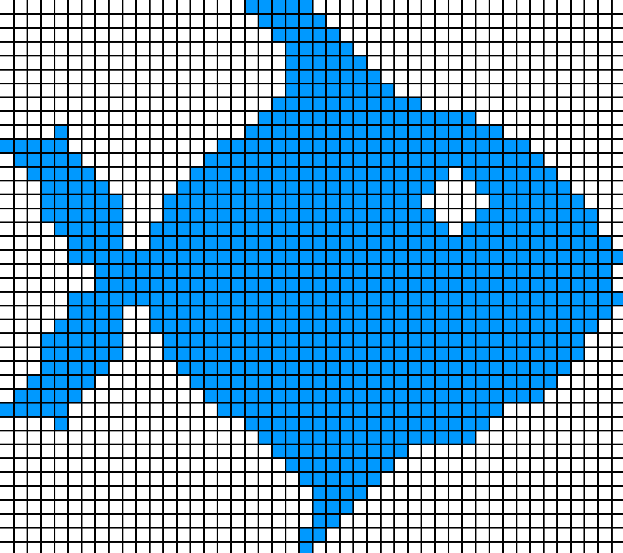 An example for HDTV-resolution using a raster graphic of a fish. Made of 40x46 squares. created on Benutzer Diskussion:Andreas -horn- Hornig/Bildwerkstatt